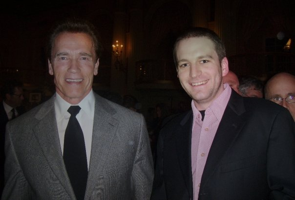 Governor Arnold Schwarzenegger and Ryan J. Davis on 2/21/08